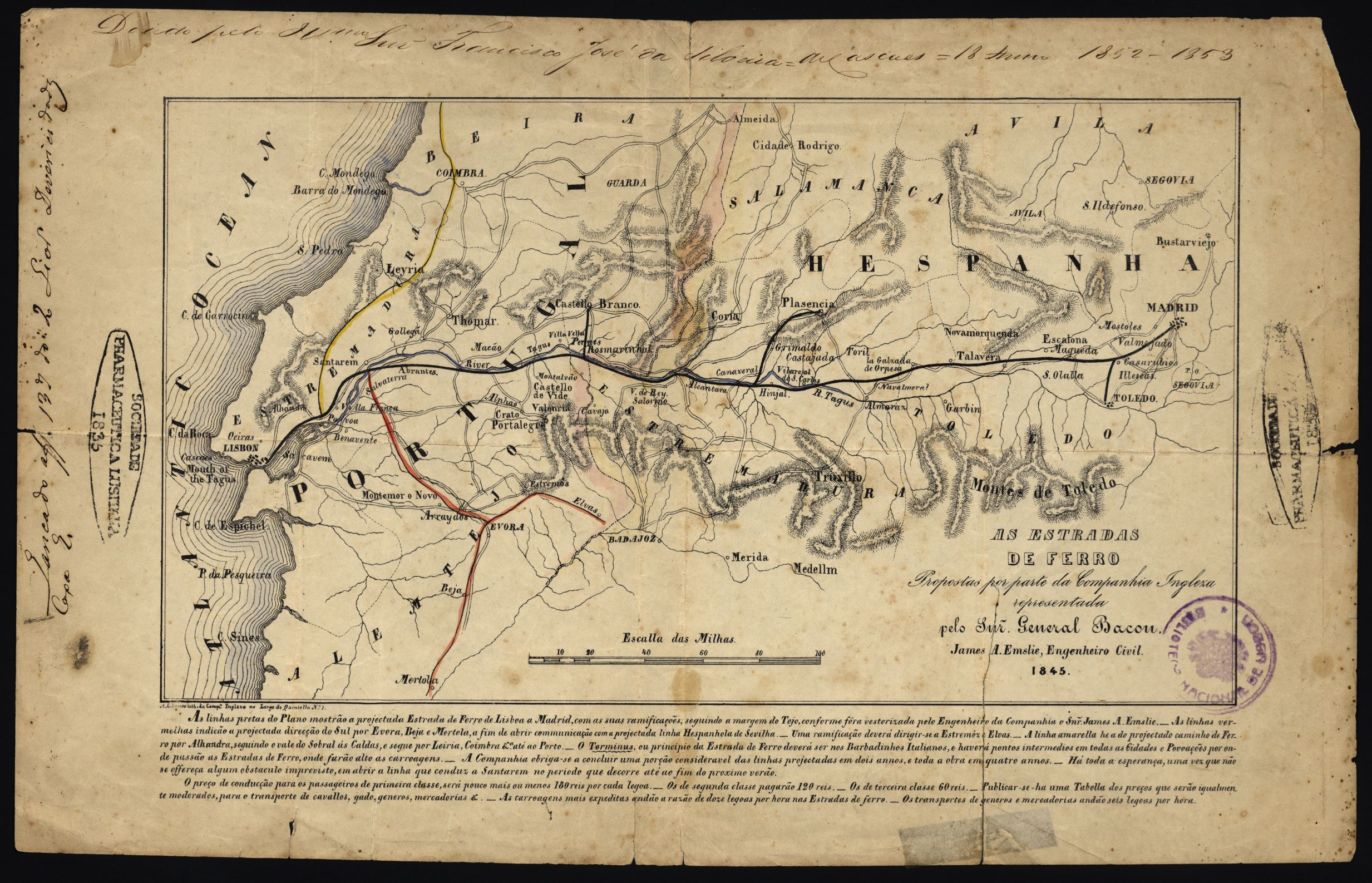 Map with several proposals for railway lines in Portugal, made by a british company in 1845. However, the lines were never built due to a civil war in the following years, and the construction of the portugueses railways was only restarted in 1853. Although the new lines were built using different projects, some of them ended up having part of their course similar to the 1845 proposal, incluind the Alentejo, Oeste, Norte and Leste Railways, and the former Reguengos Branch. This image was scanned and published on the website of Biblioteca Nacional de Portugal.